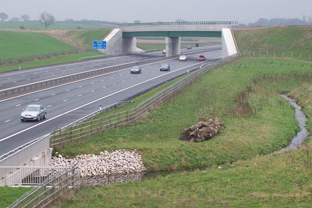 Crane Brook. The bridge carries a disused (?) railway line over the M6 Toll.